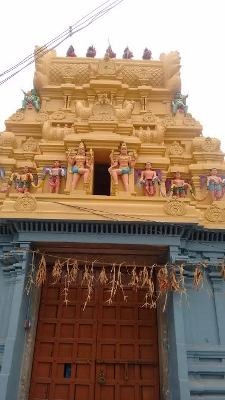 Tanjorejaintempleentrance தஞ்சாவூர் சமணக்கோயில்